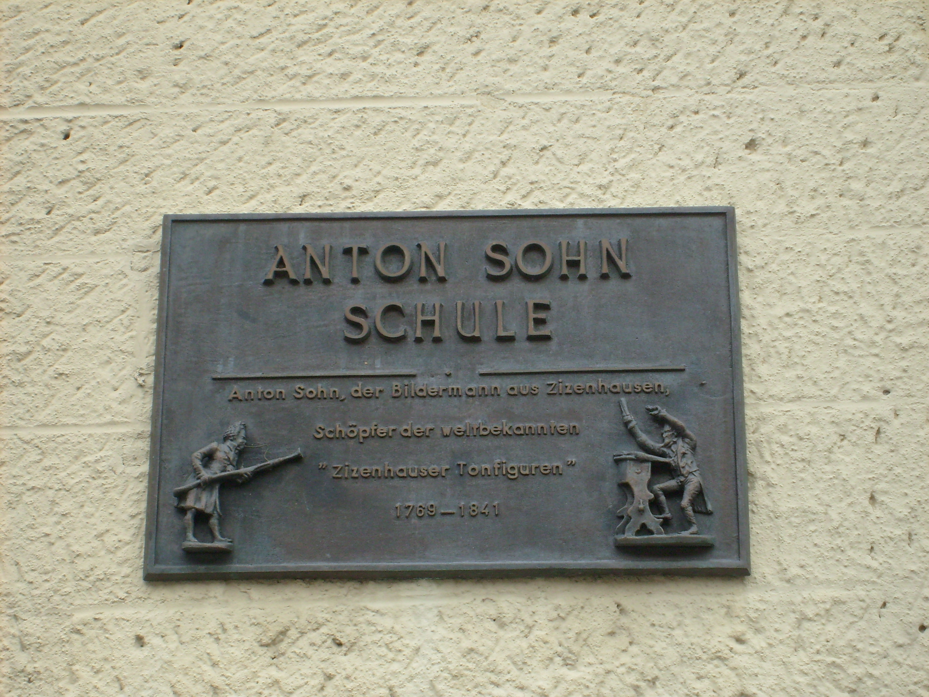 Commemorative plaque of Anton Sohn at the Anton-Sohn-Schule in Zizenhausen, a village in the City of Stockach in the district of Konstanz in Baden-Württemberg in Germany.